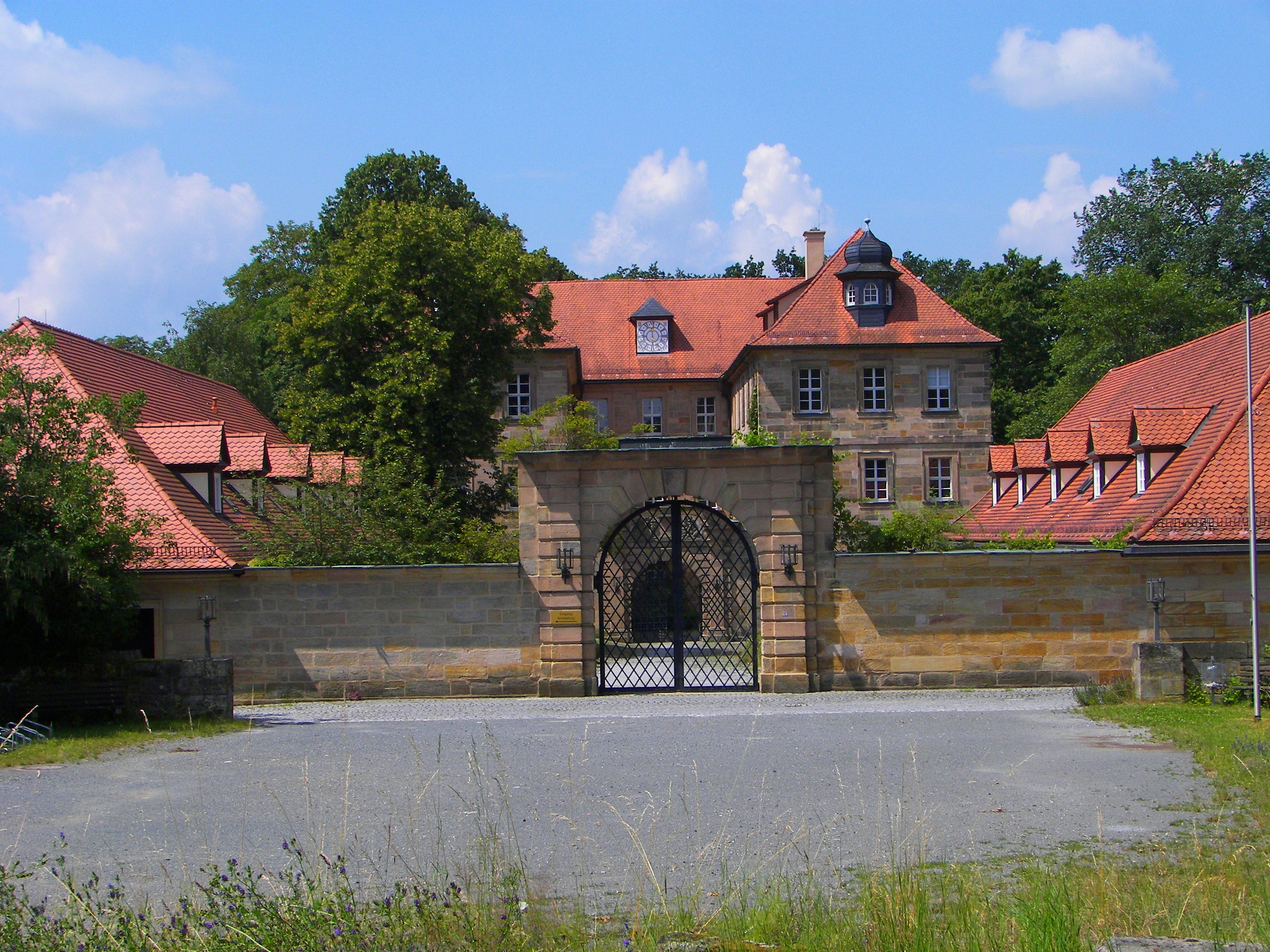 Castle of Steinenhausen near Kulmbach